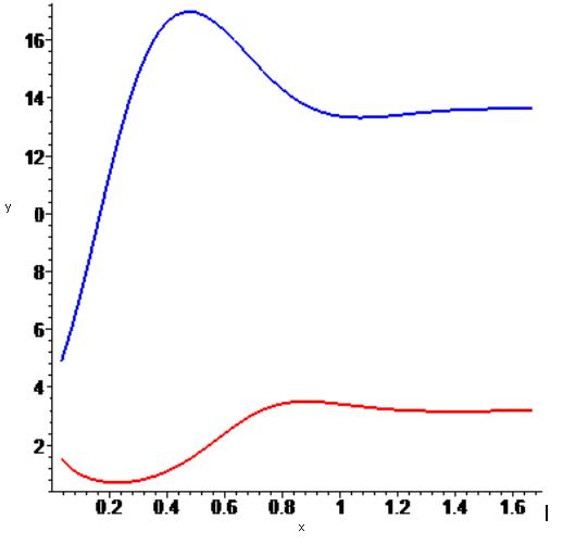 Changes in population in modified Lotka-Volterra model (inner species food competition included)